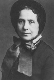 Template:En\Catherine Booth.